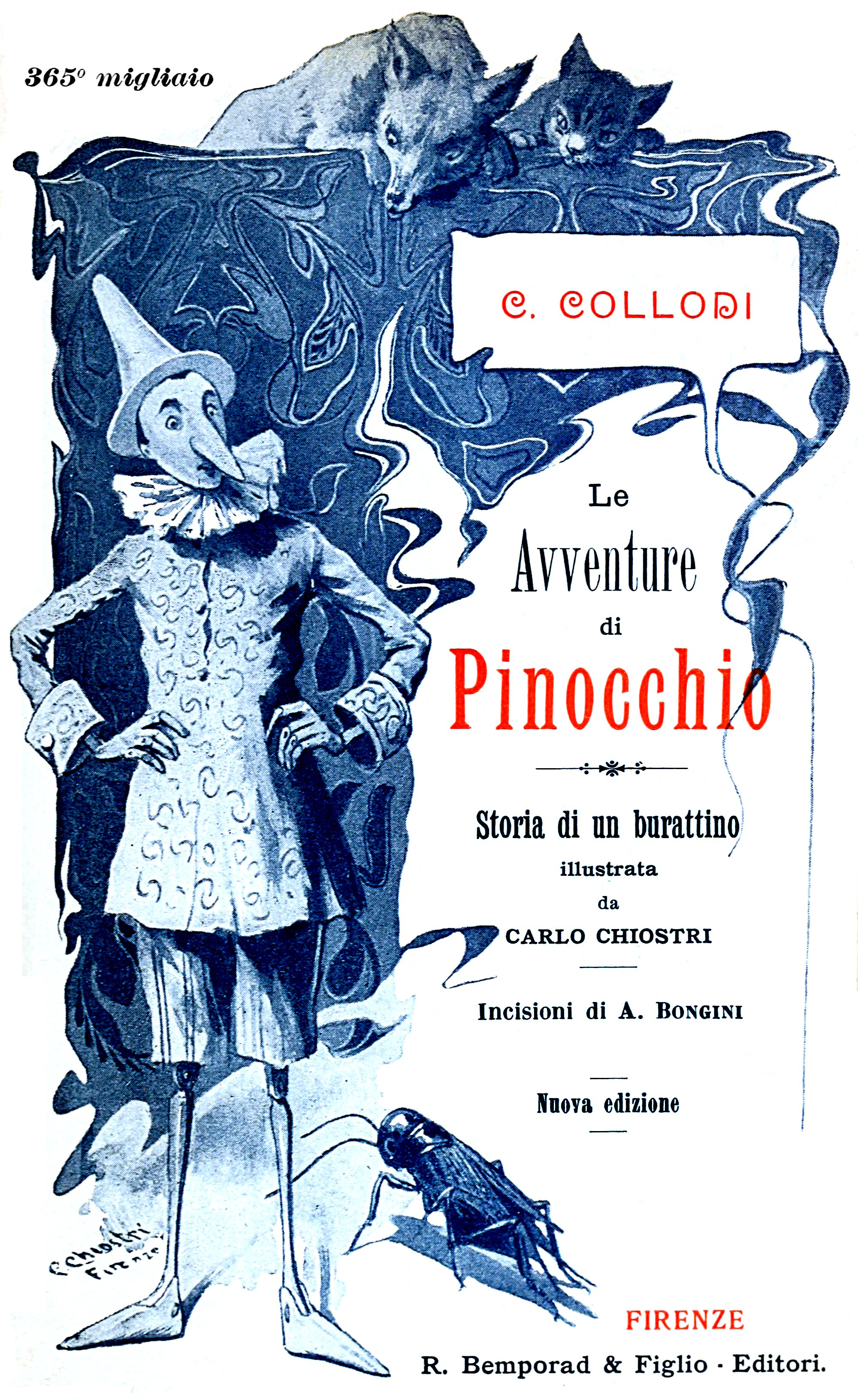 Illustrations from "Le avventure di Pinocchio, storia di un burattino", Carlo Collodi, Bemporad & figlio, Firenze 1902 (Drawings and engravings by Carlo Chiostri, and A. Bongini)